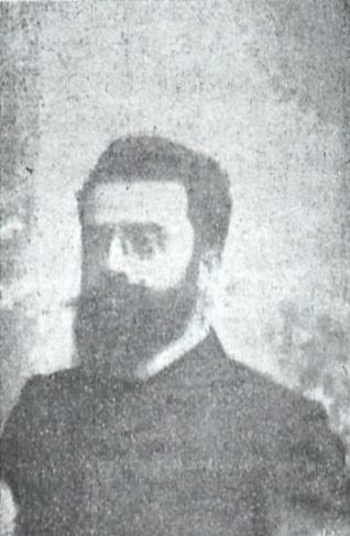 Vladimer Lordkipanidze (1872 — 1909), Georgian journalist, educator and political activist